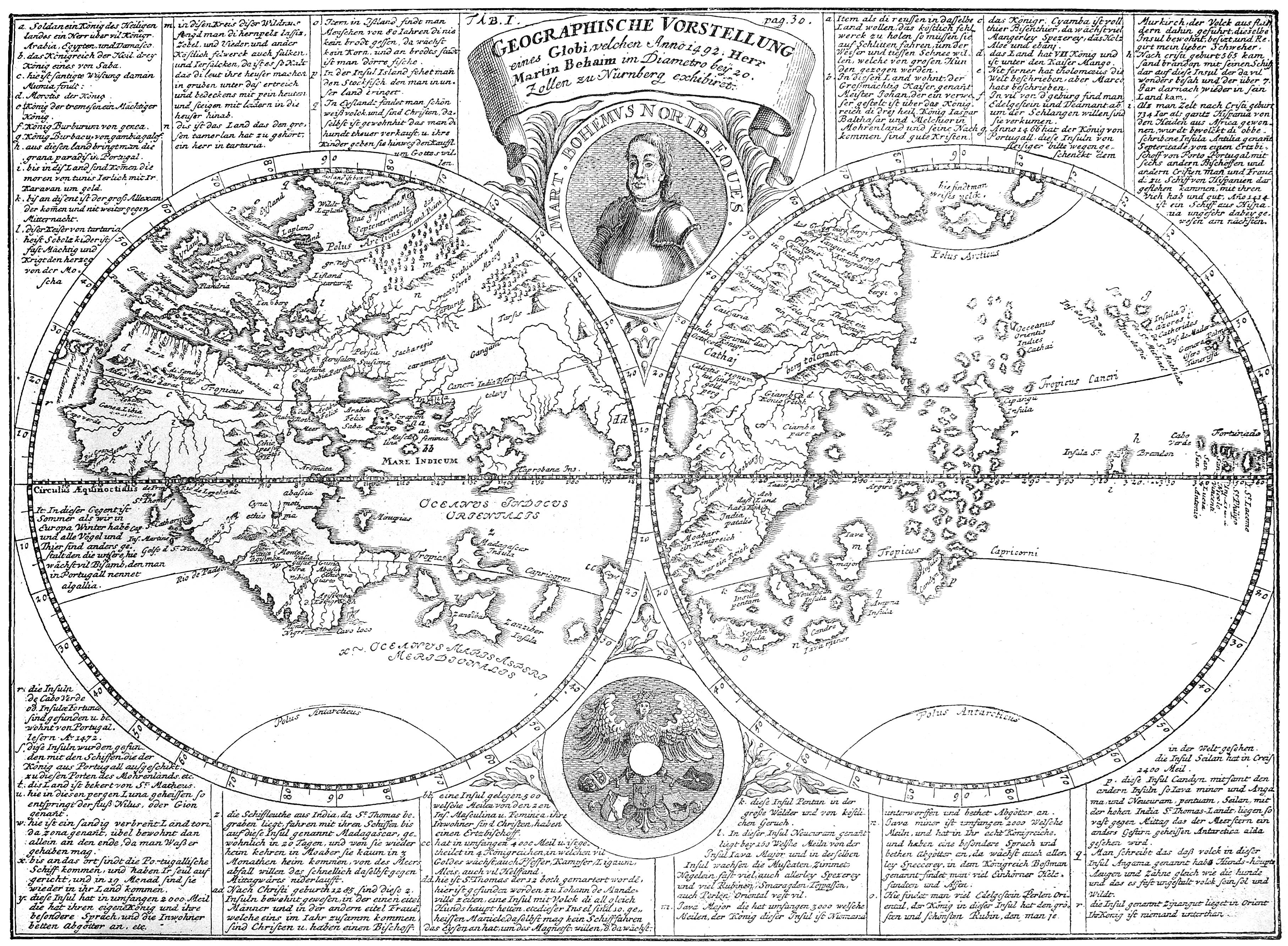 no caption